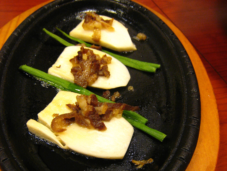 Songi gui (송이구이), a variety of gui (grilled dish) made with songi (송이버섯, Matsutake) in Korean cuisine.